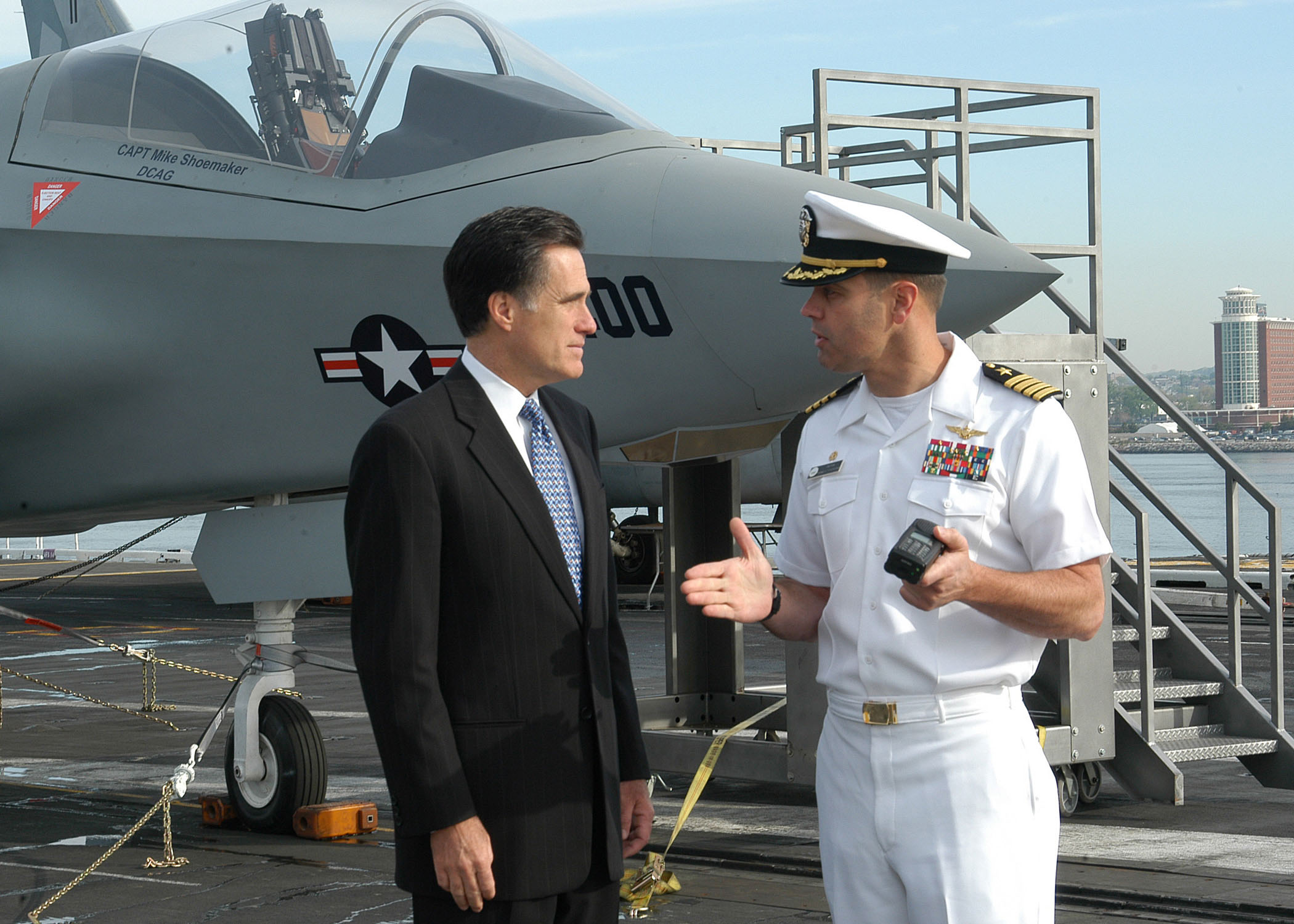 Boston, Mass. (May 20, 2005) – USS John F. Kennedy (CV 67) Commanding Officer, Capt. Dennis E. Fitzpatrick, gives the Massachusetts Gov. Mitt Romney a tour of the conventionally powered aircraft carrier's flight deck. Kennedy and the embarked Marine Expeditionary Unit Two Four (MEU-24) are visiting Boston in support of Armed Forces Day. U.S. Navy photo by Photographer's Mate 3rd Class Joe Dye (RELEASED)